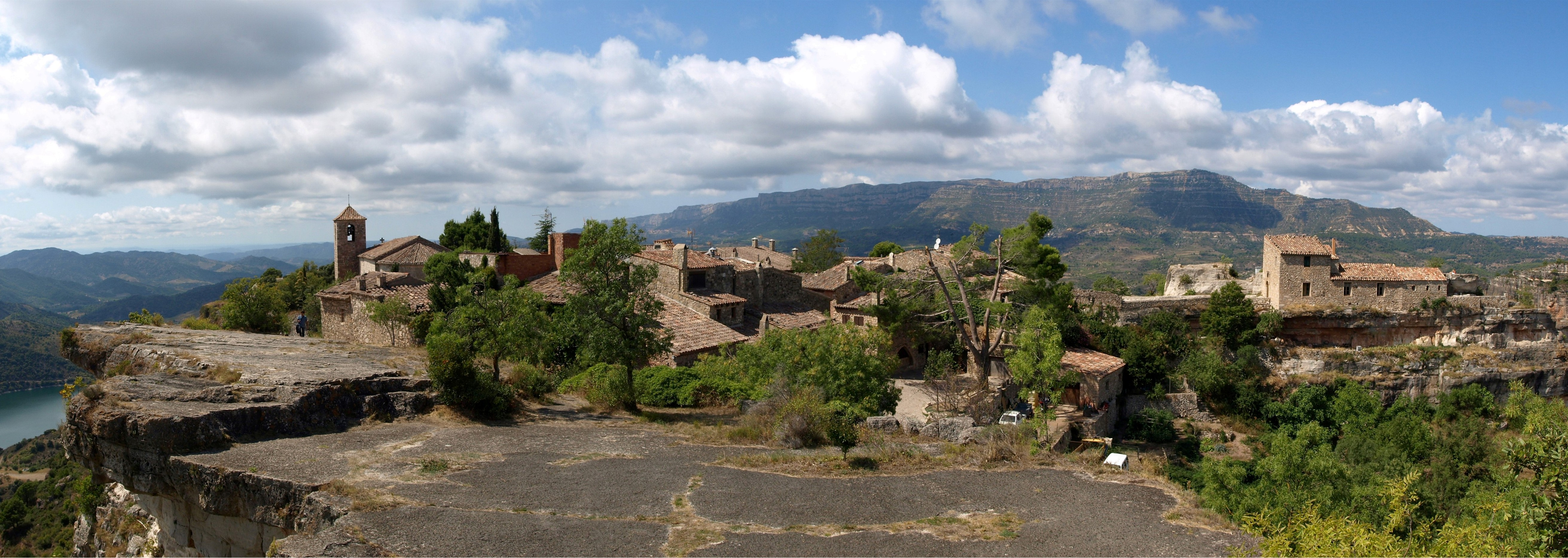 Panoramic view of Siurana, Catalonia, Spain